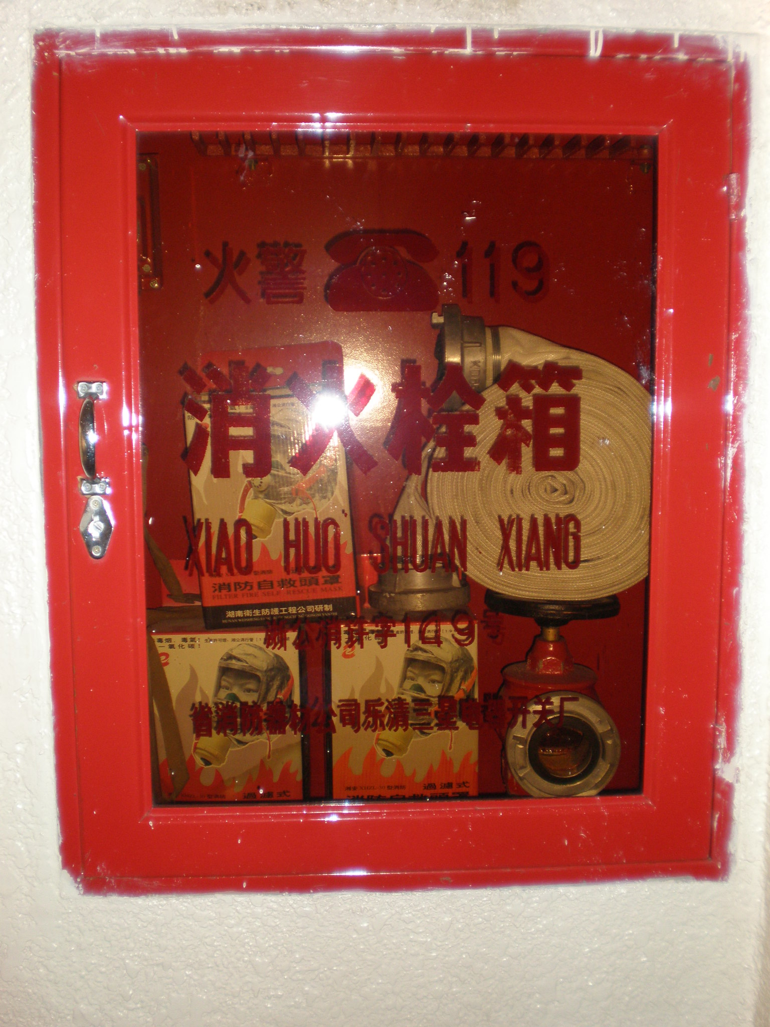 A fire hose box also containing filtration masks at the Camellia Hotel on East Dongfeng Road in Kunming, Yunnan.